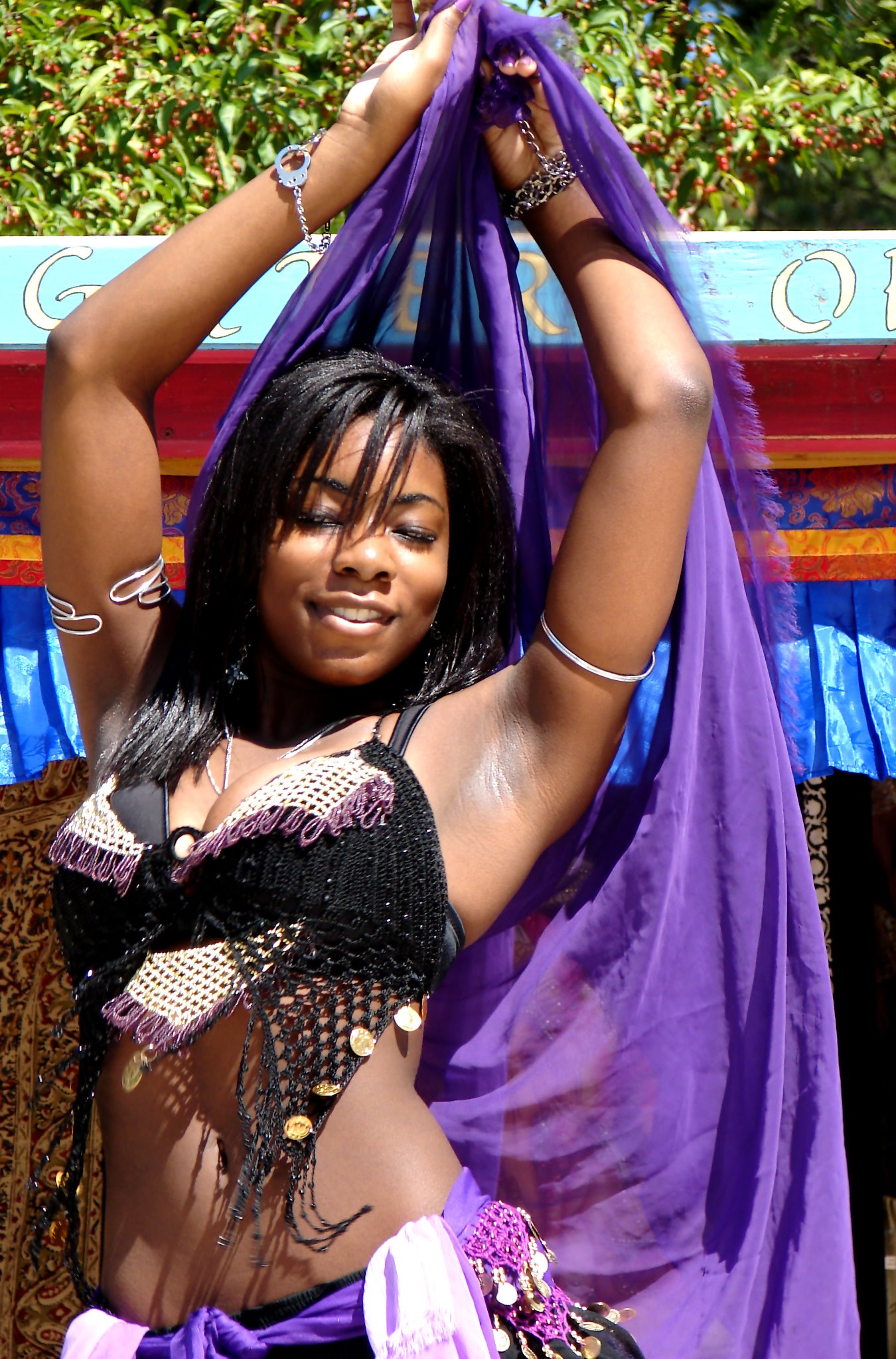 Lakewood Lions Renaissance Faire, Lakewood New Jersey